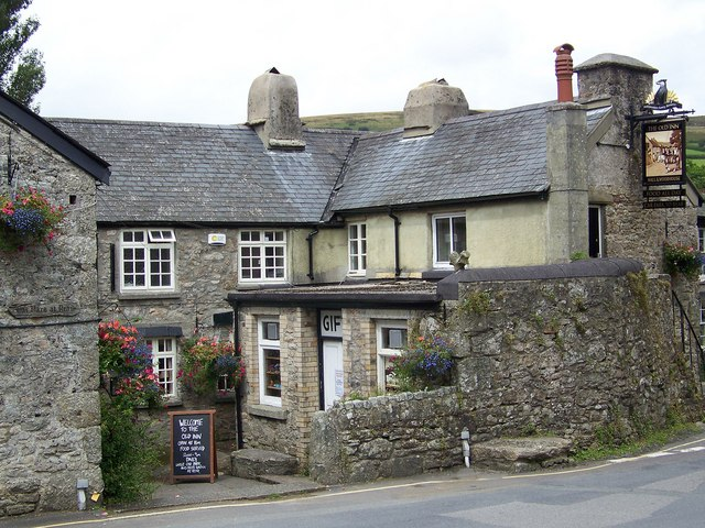 The Old Inn, Widecombe-in-the-Moor The pub has the sign depicting Uncle Tom Cobley and All.